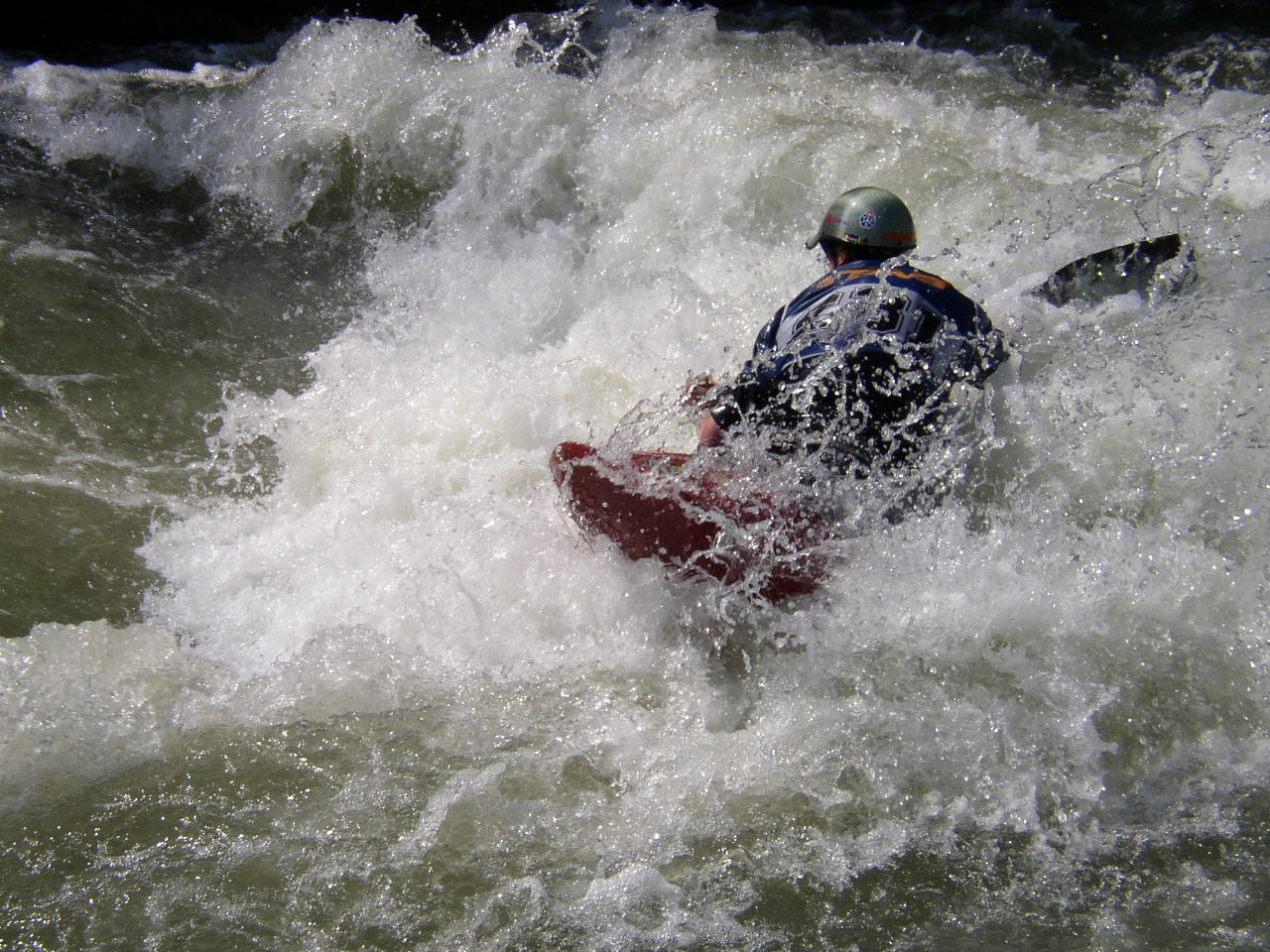 Swiss paddler Ralph Rüdisüli[2] at the Eurocup Playboating, Eiskanal in Augsburg, Germany